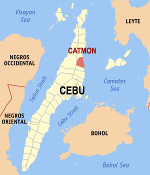 Map of Cebu showing the location of Catmon